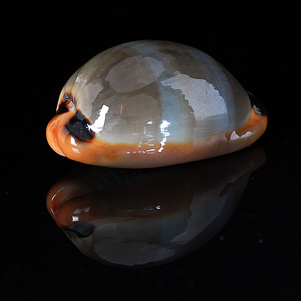 Luria lurida pulchroides